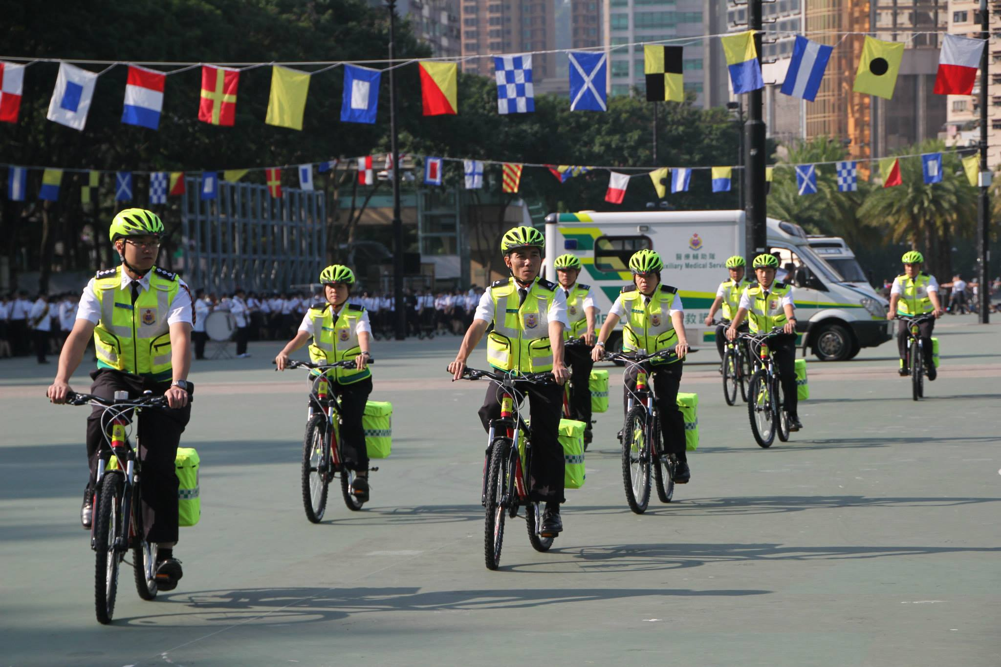 AMS Cycle Responder - Commissioner's Parade